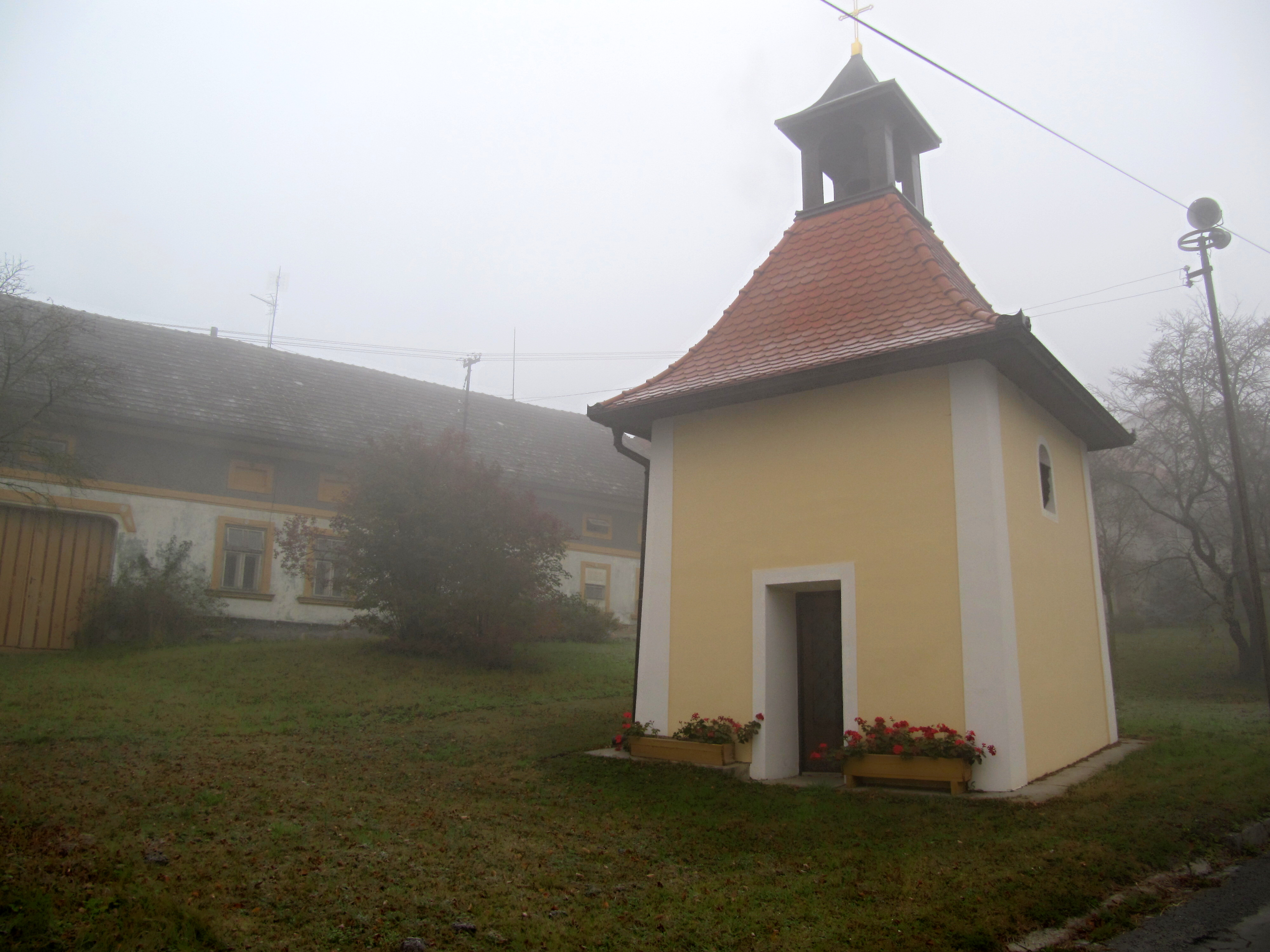 Sulimov in Kroměříž District, Czech Republic. Belfry on the common.